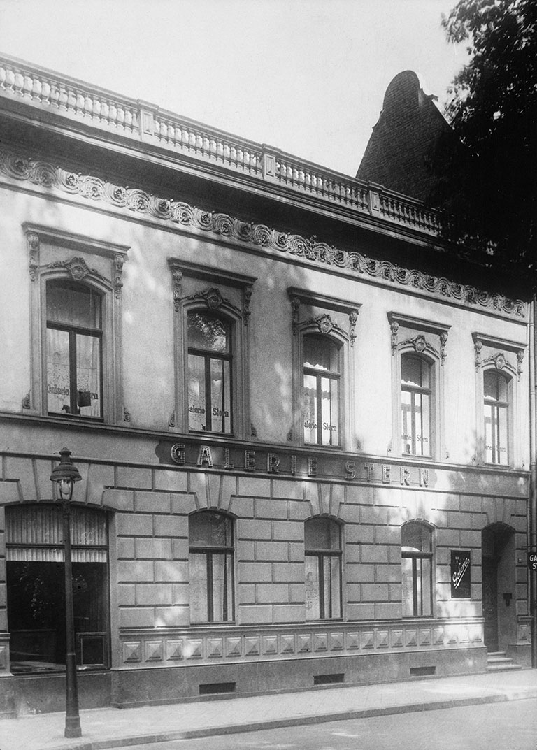 Photographs courtesy of the National Gallery of Canada: Galerie Stern, Düsseldorf.